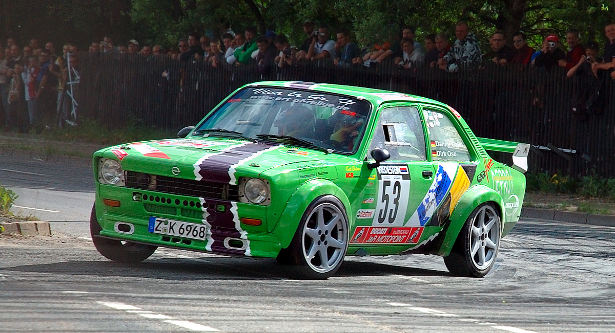 This image shows a Opel Kadett C. The driver is Danny Galle, the co-driver is Dirk Ose. This photo has been taken during the Saxony rally racing 2005 in Zwickau (Germany).